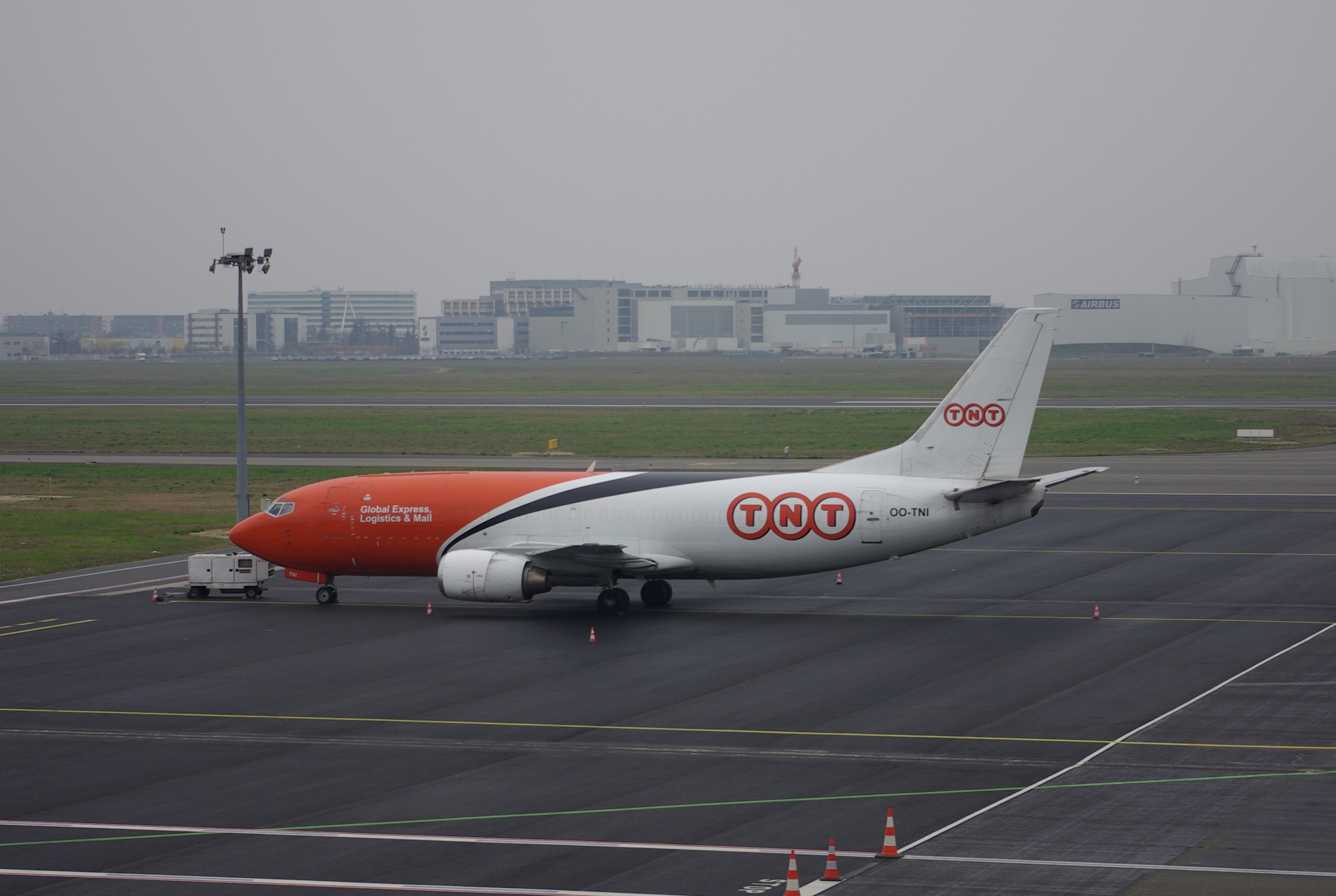 A Boeing 737-300 of TNT on the tarmac of Toulouse-Blagnac. Registration: OO-TNI